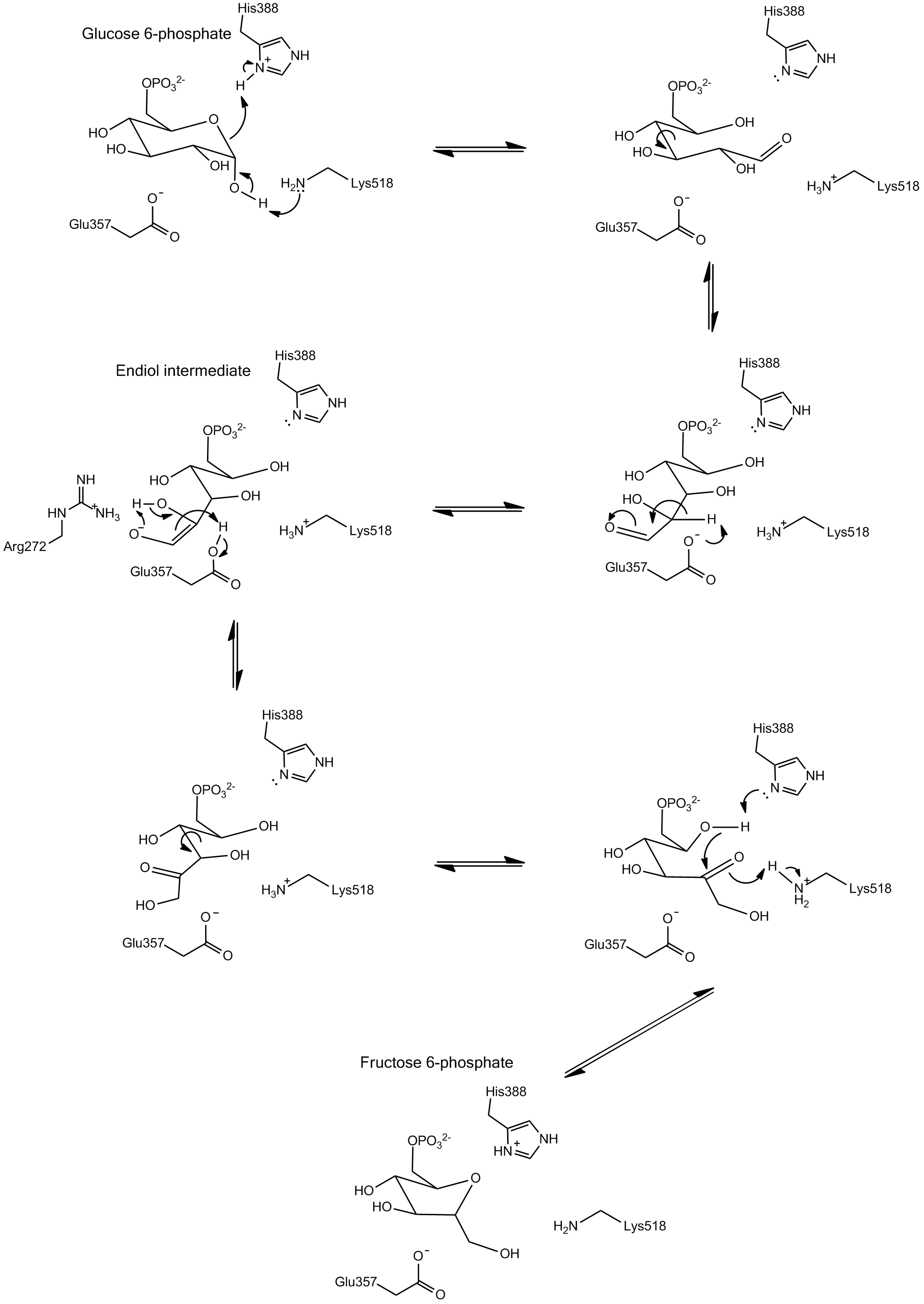 Reaction mechanism of Phosphoglucose Isomerase